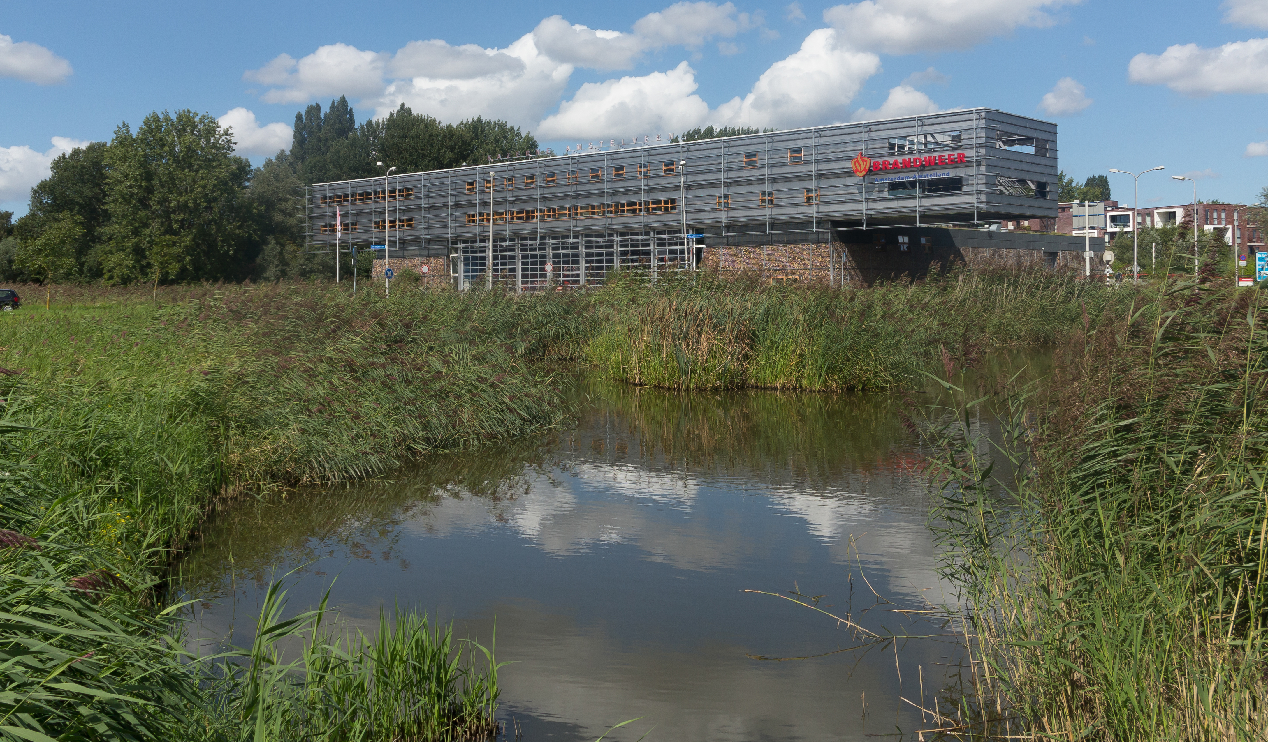 Amstelveen, fire station